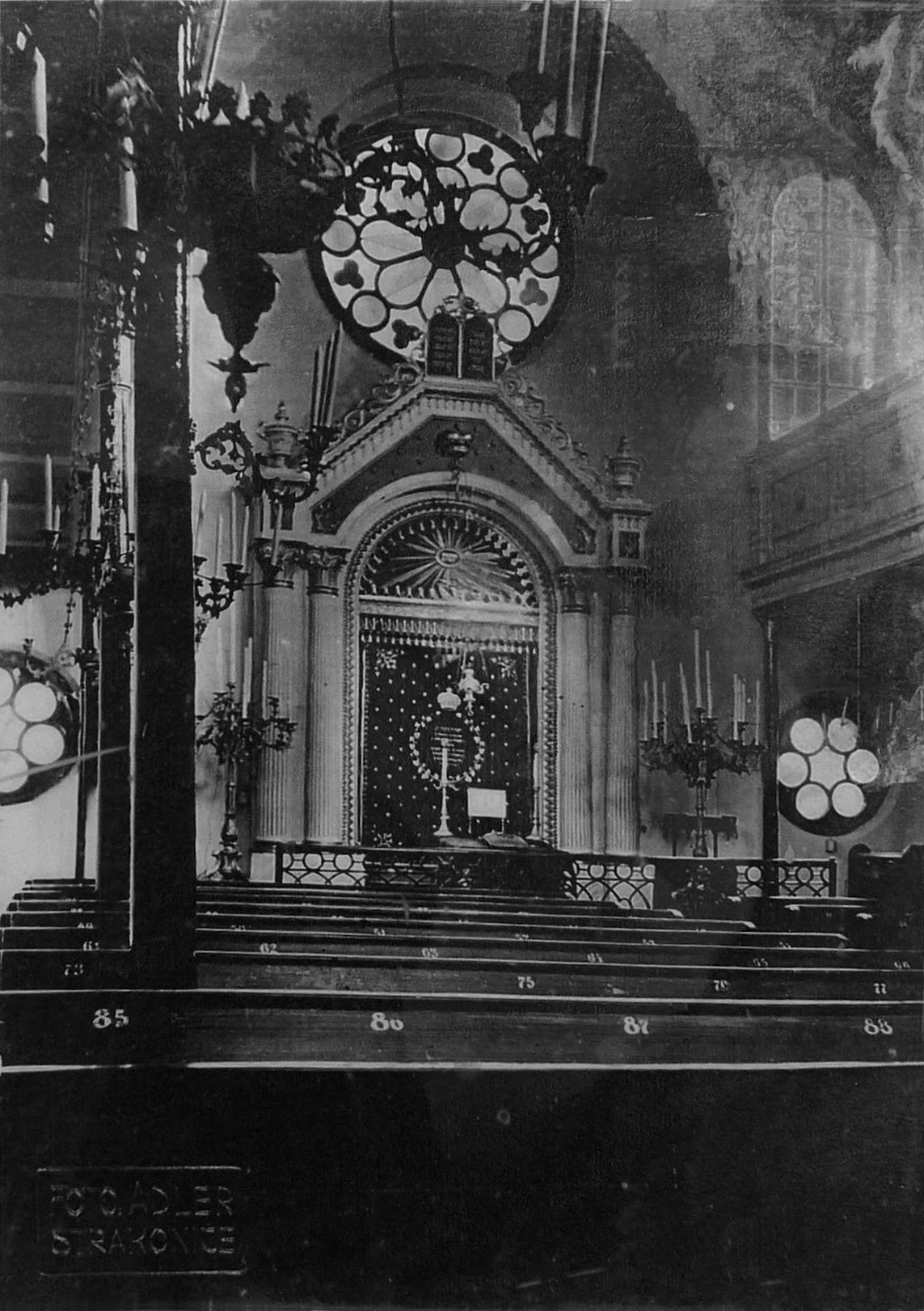 Interior of the sSynagogue in the town of Strakonice, South Bohemian Region, Czech Republic, pulled down in 1976. Copy of a photo displayed in the local Jewish cemetery.